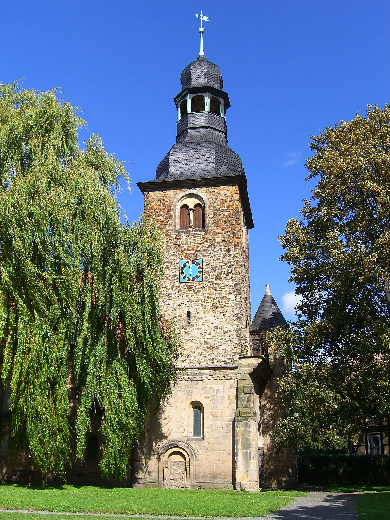 Abbey church "St. Marien" in Marienborn.